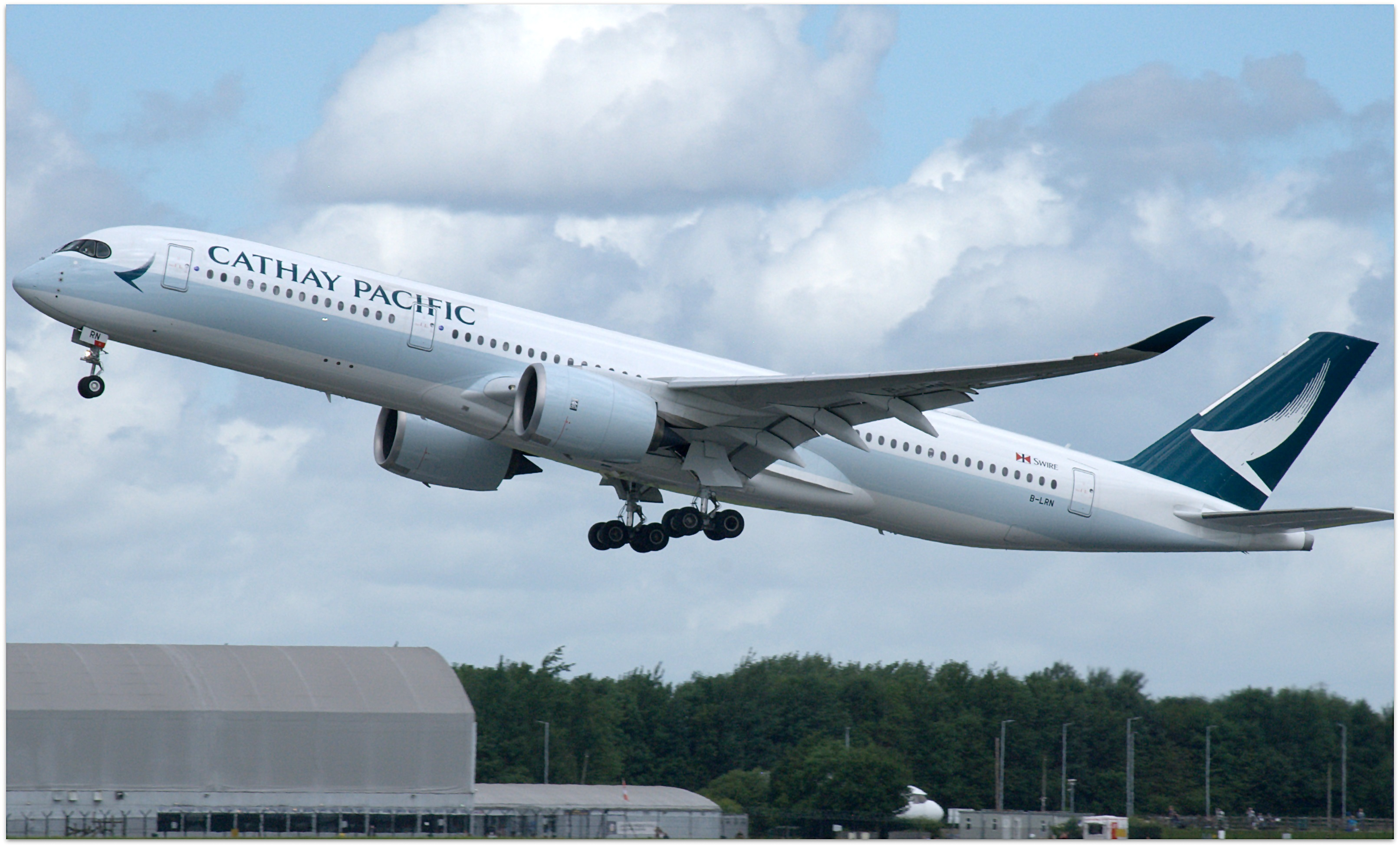 Manchester Airport (EGCC)